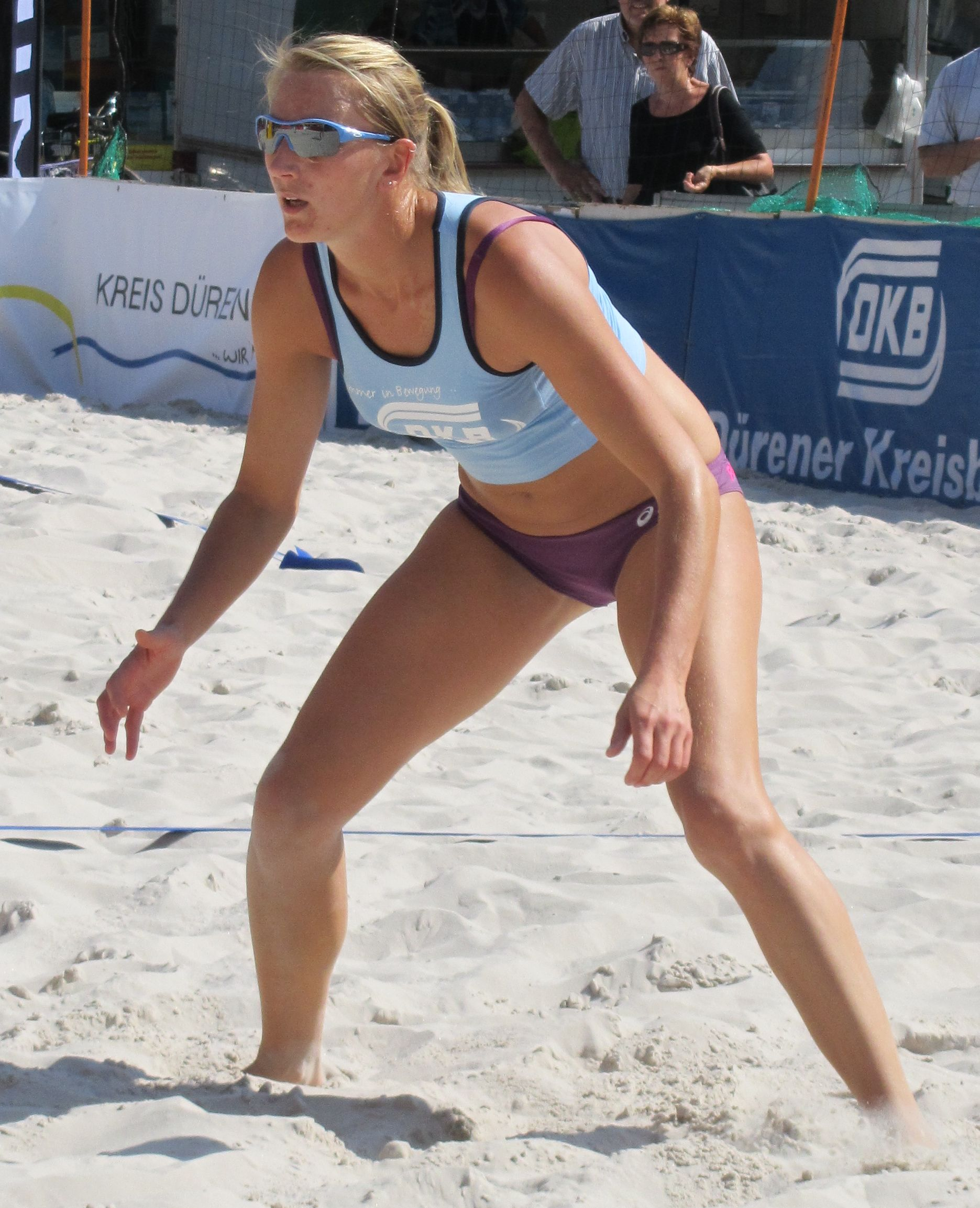 the German beach volleyball player Rieke Brink-Abeler at the DKB Beach Cup 2011 in Düren, Germany